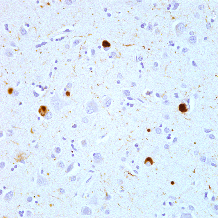 Micrograph of a section through the neocortex of a patient with Lewy Body Disease, showing brown-immunostained alpha-synuclein in Lewy Bodies (large clumps) and Lewy Neurites (thread-like structures). Nissl counterstain (blue); 40X microscope objective.